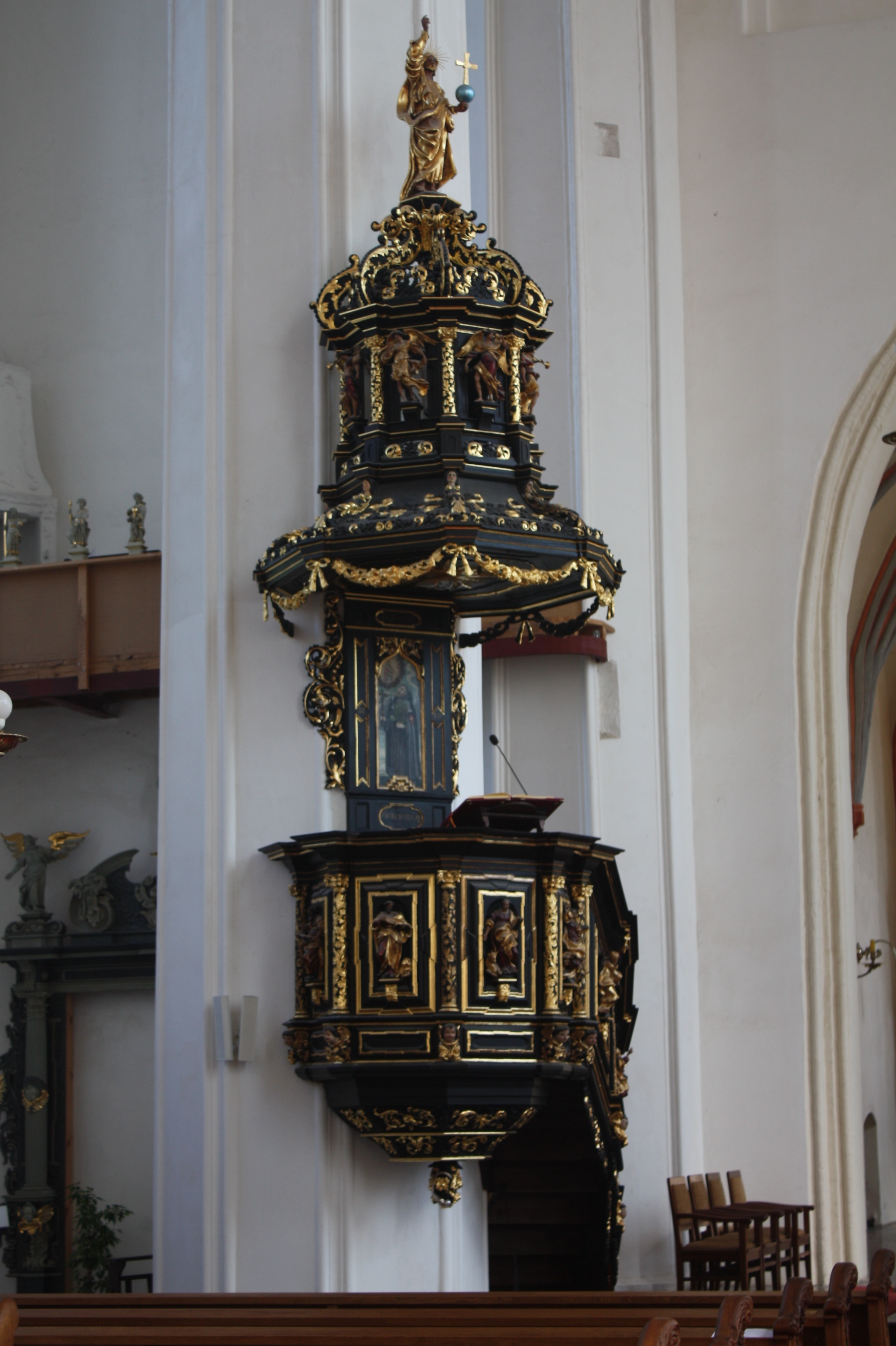 Gdańsk, Church of Saints Peter and Paul